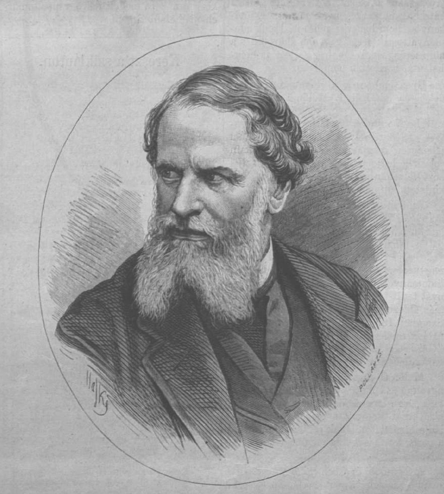 Simon Sinas